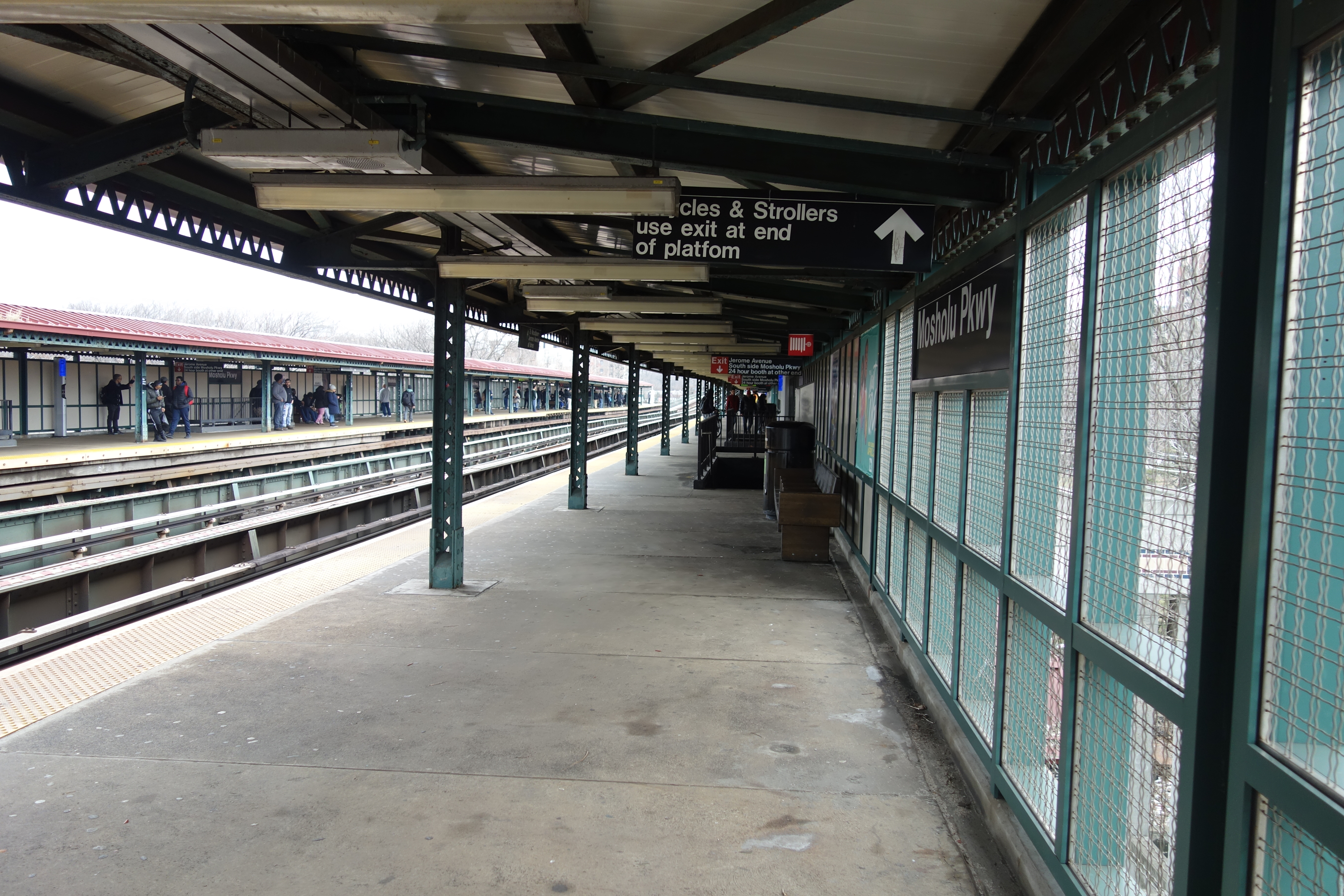 The Uptown platform of the Mosholu Parkway IRT station, above Jerome Avenue and Mosholu Parkway in Jerome Park / Bedford Park / Norwood, Bronx.